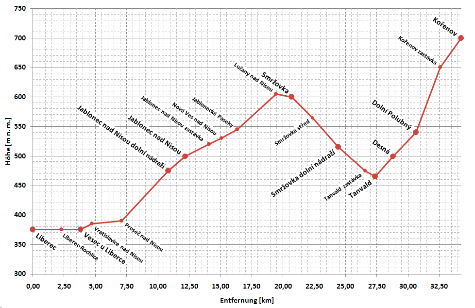 simplified altitude-profile of railway track Liberec–Kořenov